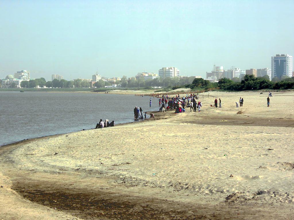 This Blue Nile beach on Tuti Island at Khartoum, Sudan, is popular on weekends.